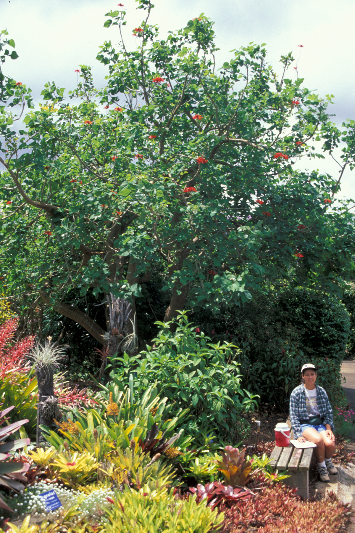 Erythrina corallodendrum (habit). Location: Maui, Enchanting Floral Gardens of Kula